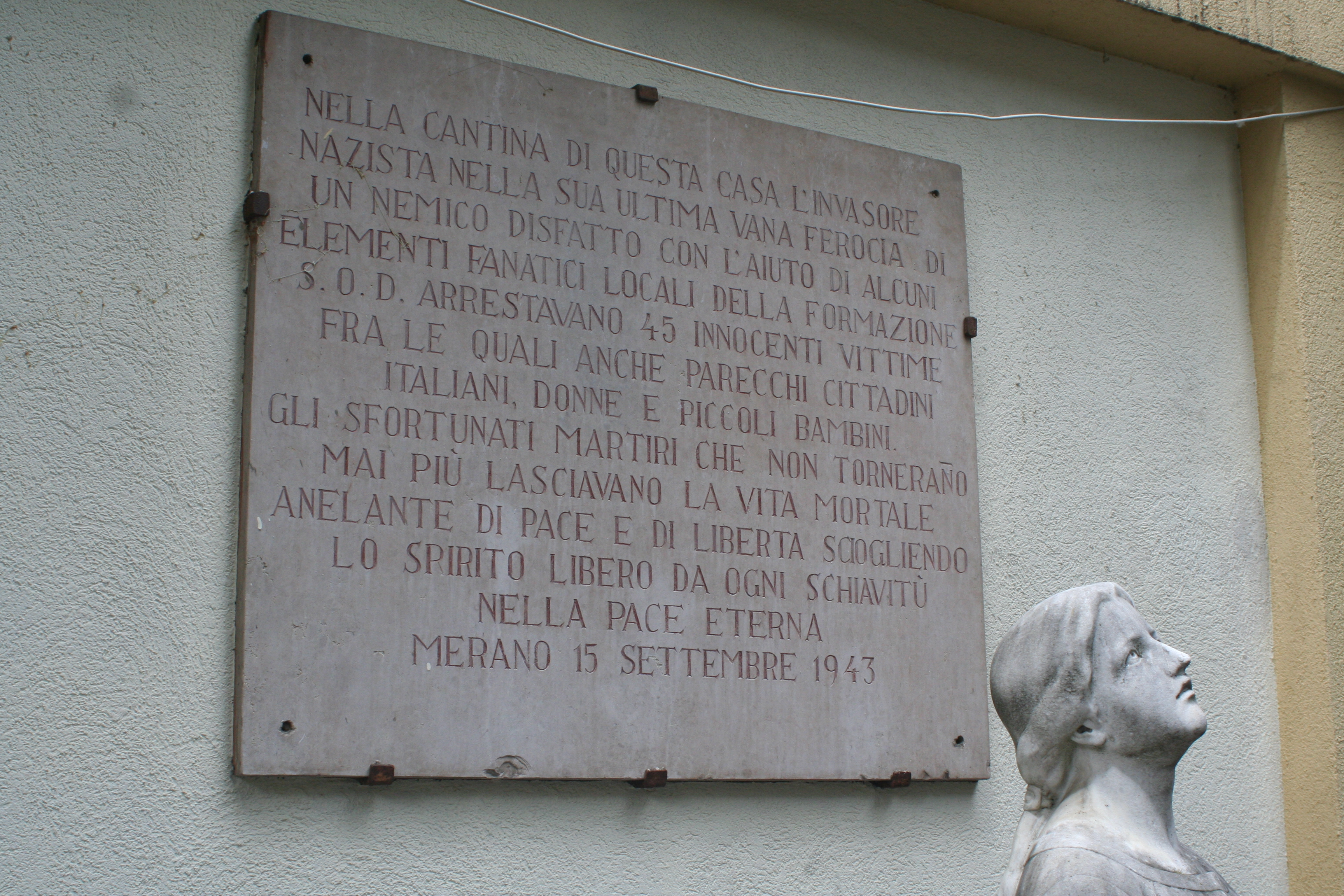 Located in a backyard In Otto-Huber-Str., Merano